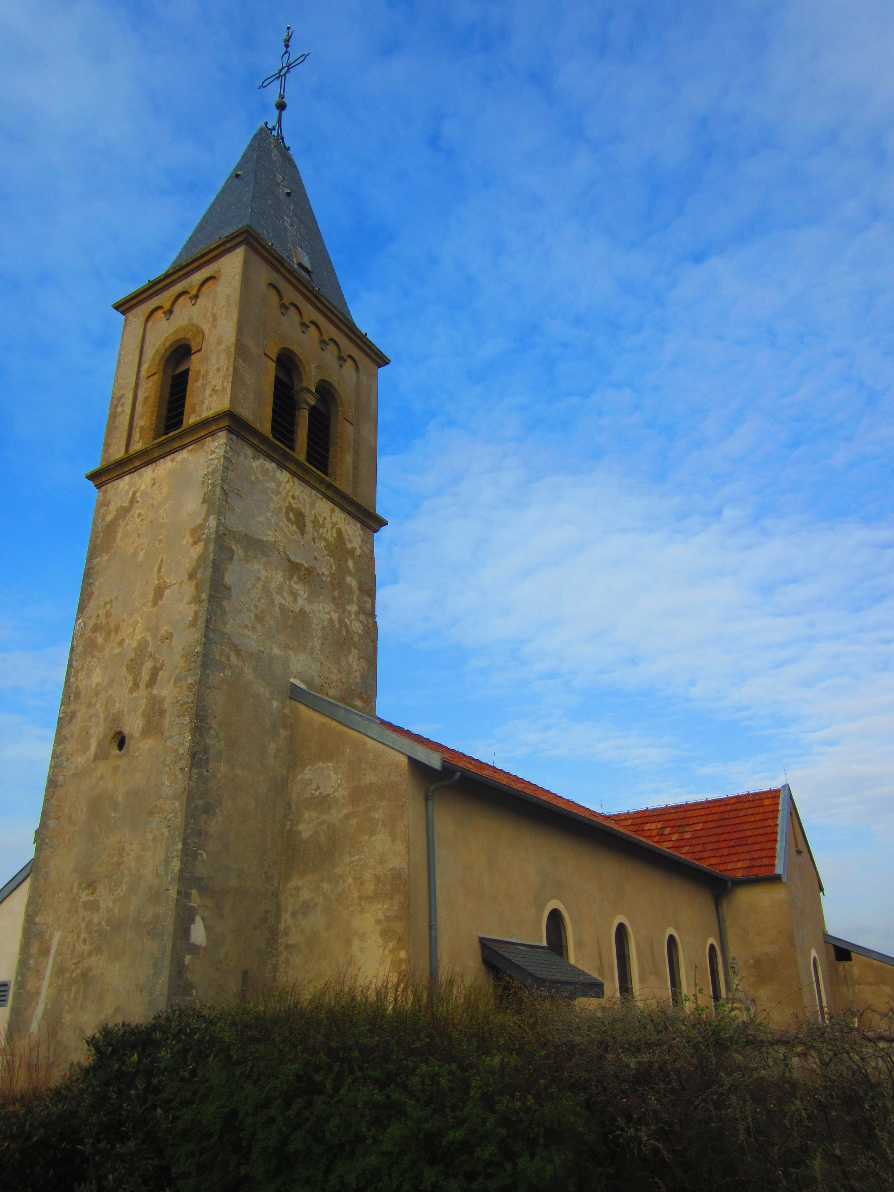 Liehon church